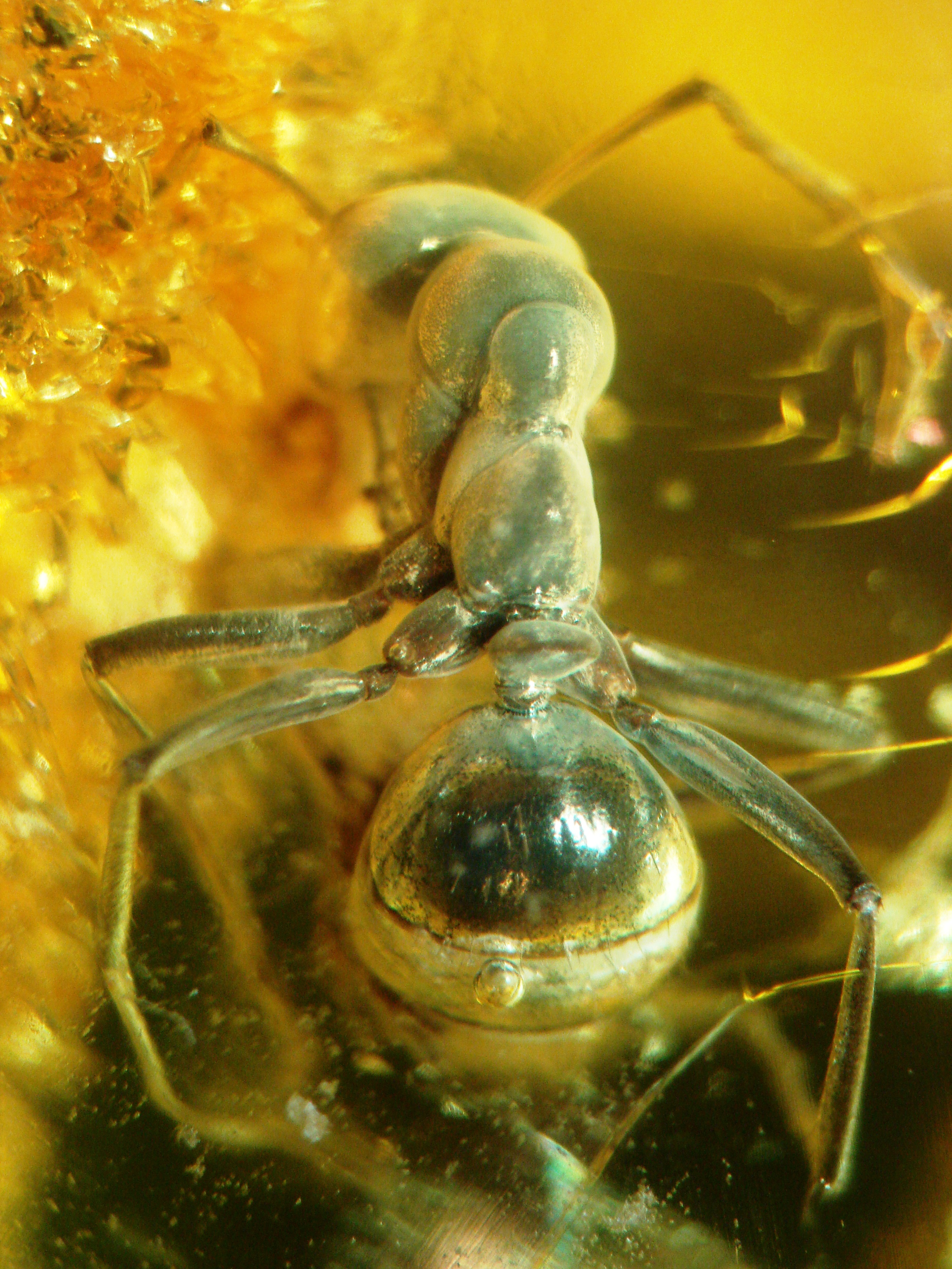 Baltic amber inclusions - 40-50 million years old - Ant (Hymenoptera, Apocrita, Vespoidea, Formicidae, ...?) The ant is about 8 mm long - measured in the position seen in the picture. The picture File:Baltic amber inclusions - Ant (Hymenoptera, Formicidae)8.JPG shows the entire piece with the ant - so you can get a sense of how big it really is